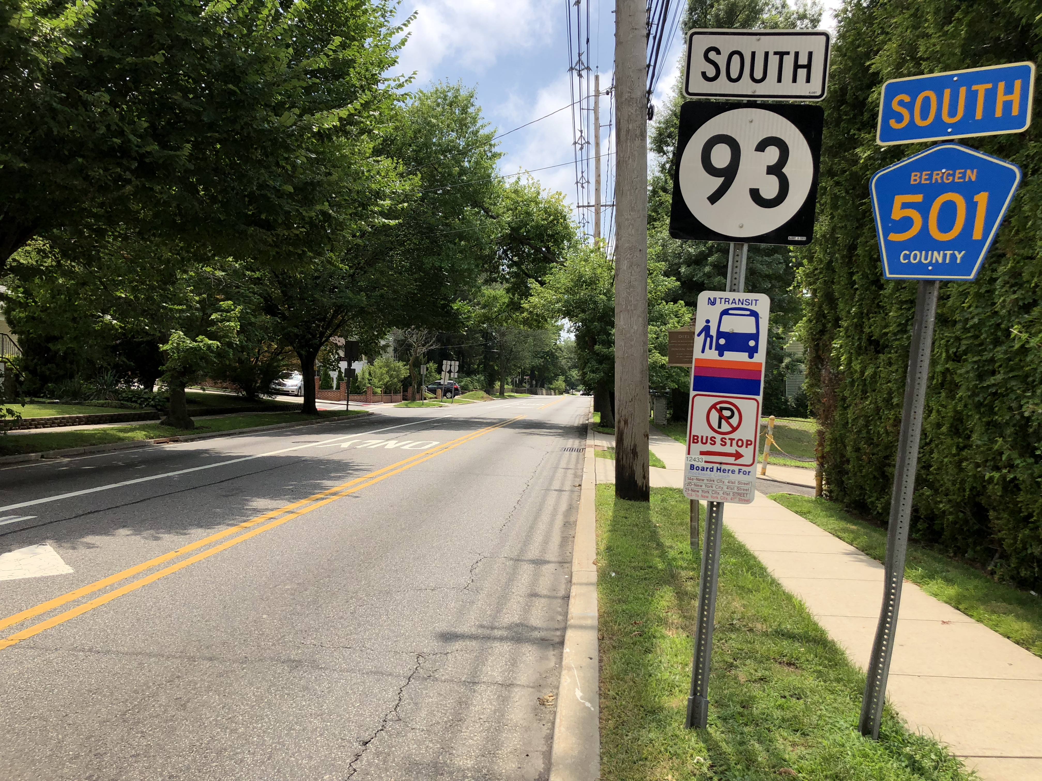 View south along New Jersey State Route 93 and Bergen County Route 501 (Grand Avenue) just south of Bergen County Route 56 (Fort Lee Road) in Leonia, Bergen County, New Jersey